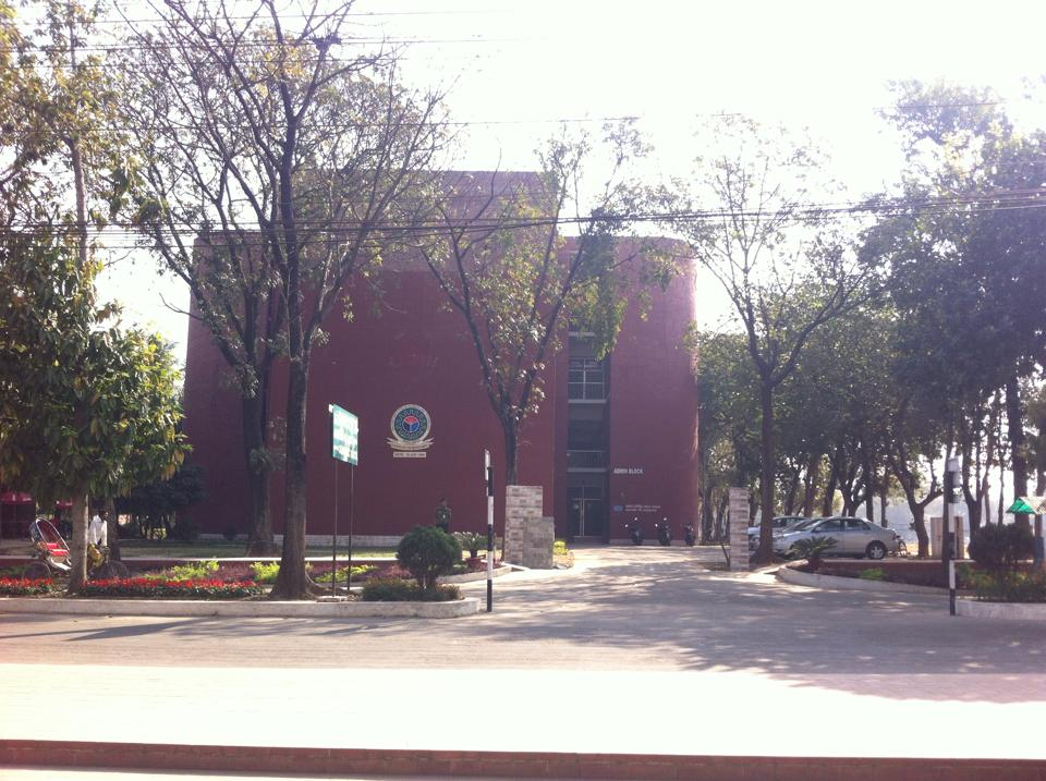 Military Institute of Science and Technology, Dhaka, Admin Building, Front View